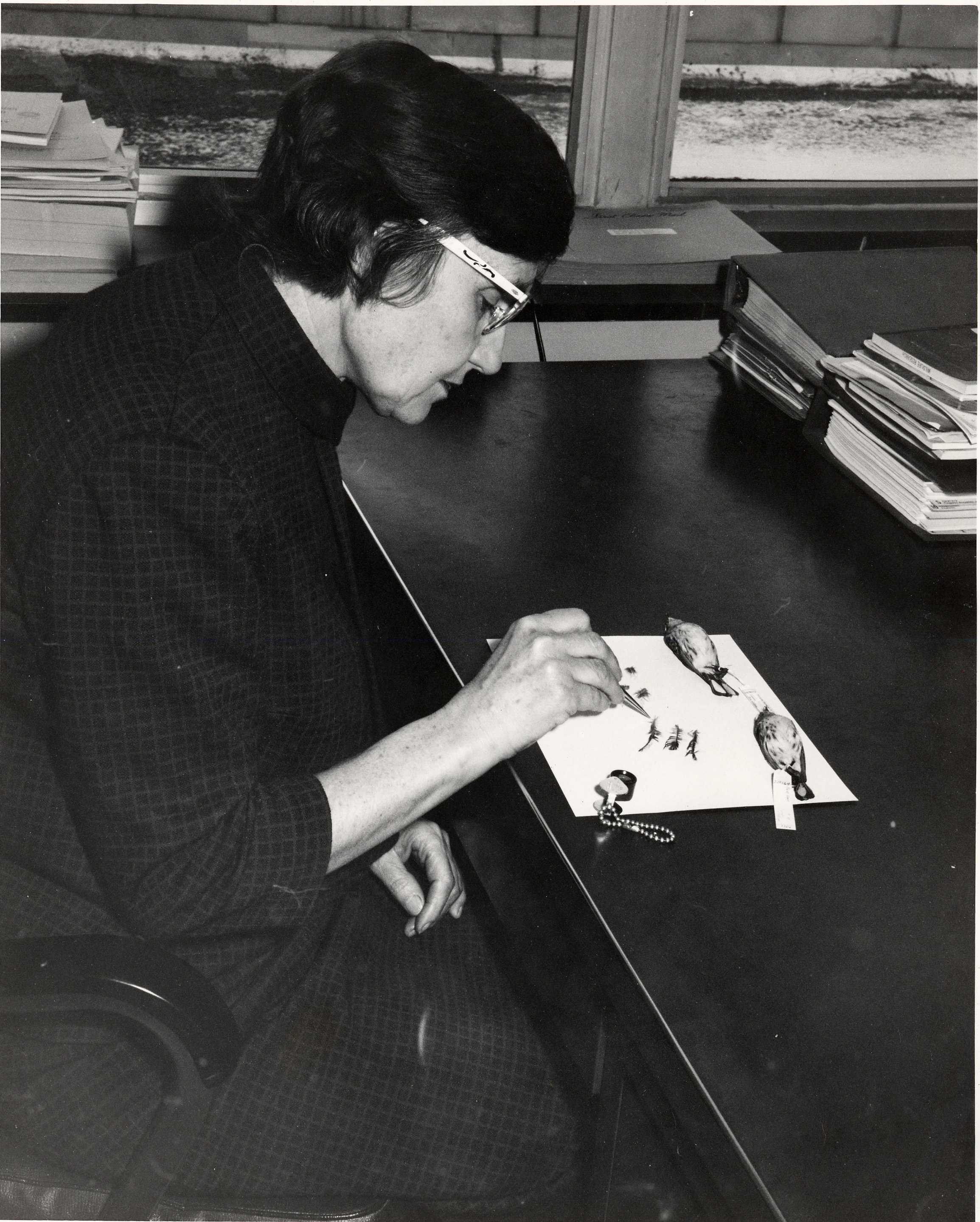 Description: Ornithologist Roxie Collie S. Laybourne (1910-2003) worked in the Division of Birds at the United States National Museum and with the Bird and Mammal Laboratories, Fish and Wildlife Service. In the 1960s, Laybourne created the field of forensic ornithology, studying minute fragments of bird feathers in order to identify which birds were ingested into aircraft engines, often causing crashes. The field expanded to cover endangered species and criminal investigations. Creator/Photographer: Unidentified photographer Medium: Black and white photographic print Date: c. 1944 Persistent URL: Repository: Smithsonian Institution Archives Accession number: SIA2009-0709